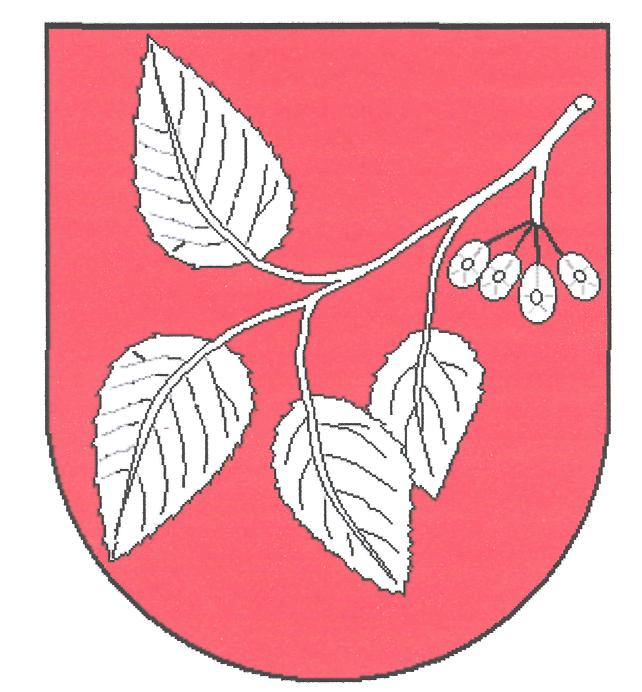 Municipal coat of arms of Vážany village, Vyškov District, Czech Republic.